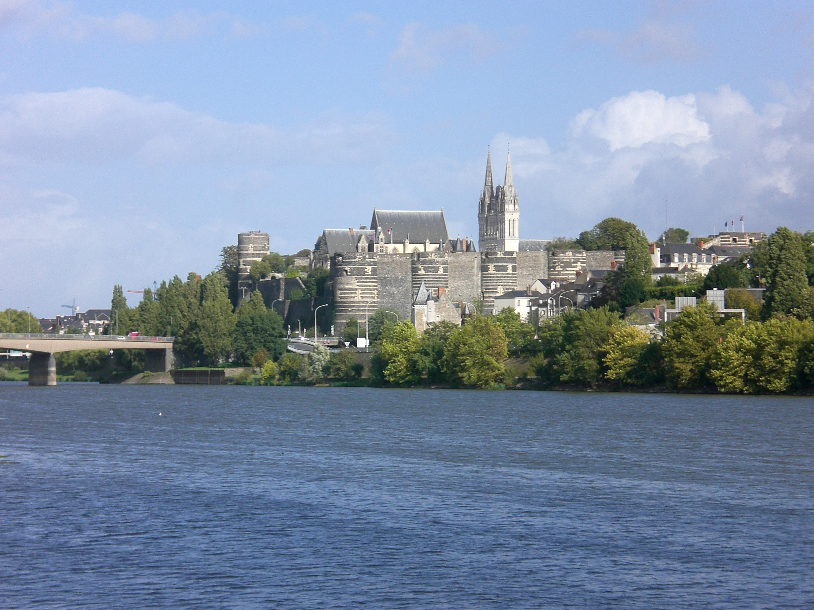 View of the castle of Angers and Maine river. Cathedral Saint-Maurice is also visible in the background (it's not a part of the castle). Angers, Maine-et-Loire, France.